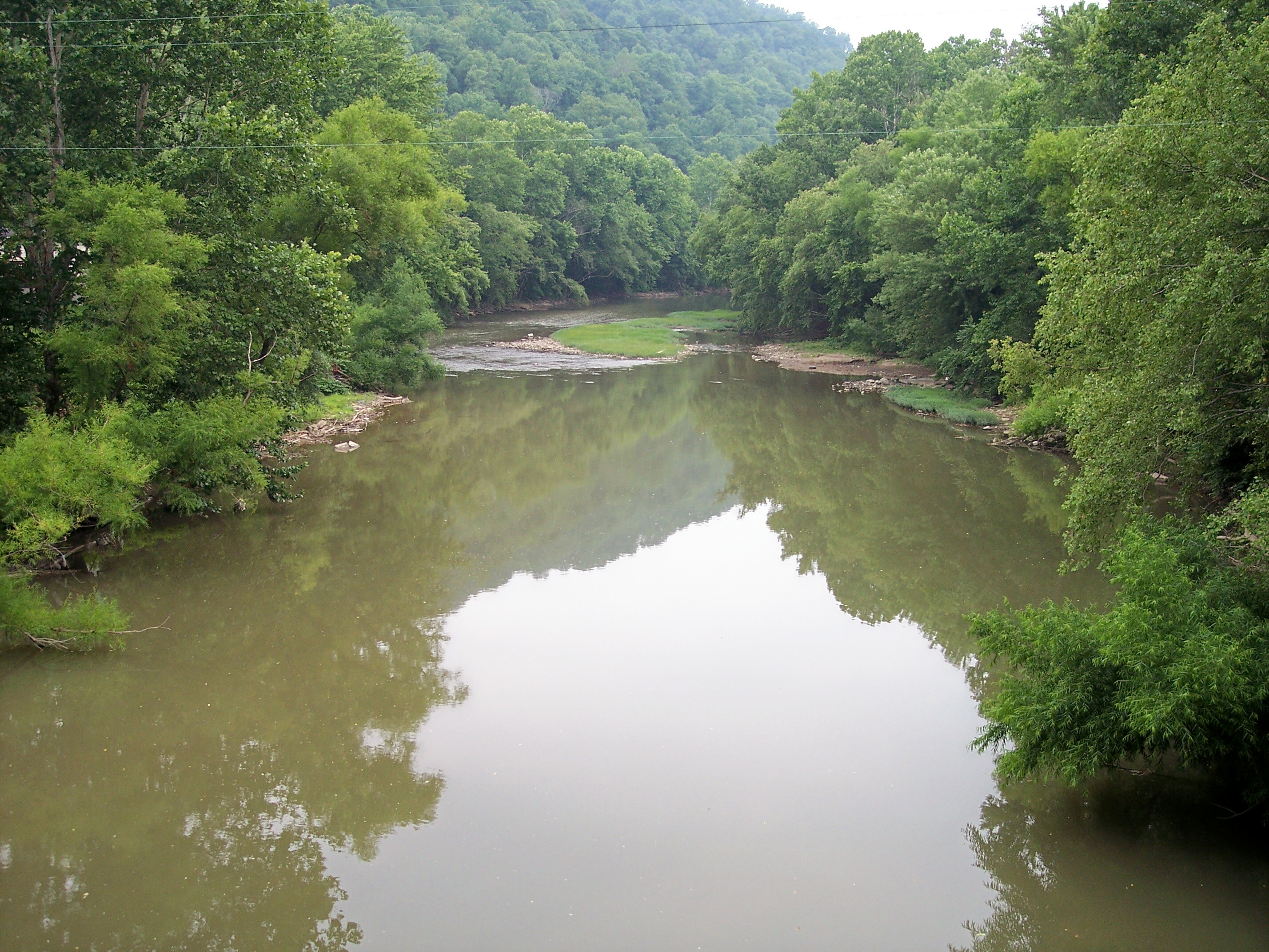 The Guyandotte River as viewed downstream from County Road 12 in West Logan, West Virginia